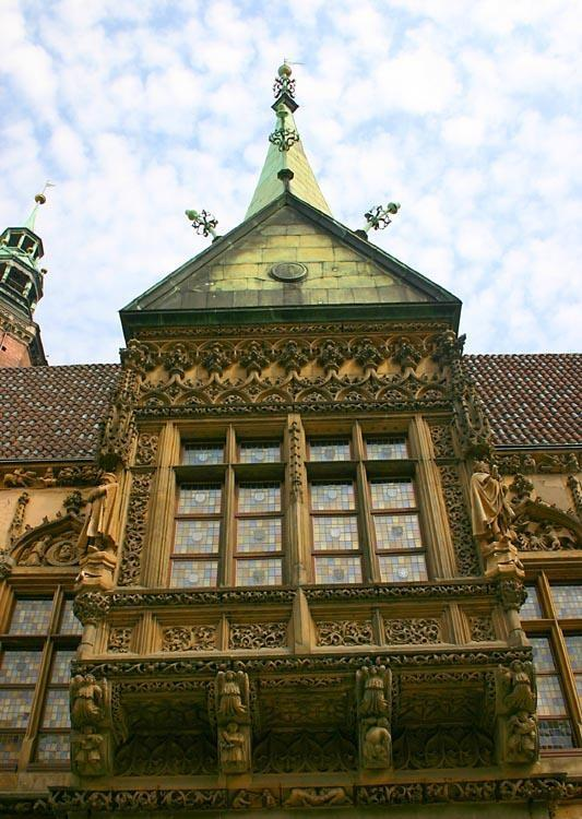 Wrocław Town Hall